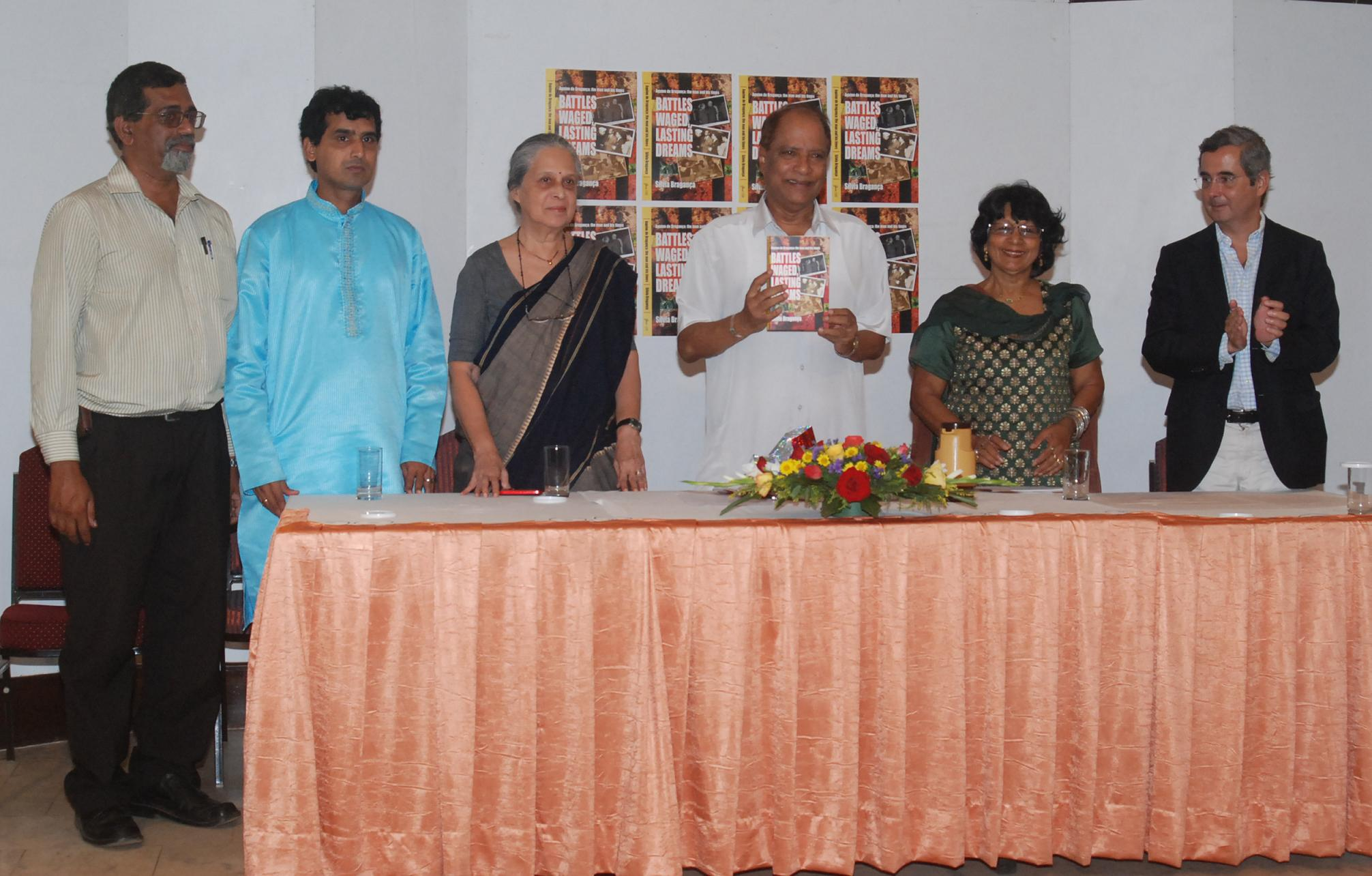 At Panjim, Goa, April 2011, during the launch of the book on Aquino de Bragança. Seen in photo from left are Aquino's relative and social campaigner Miguel Braganza, historian Prajal Sakhardande, literateur Maria Aurora Couto, Indian politician and former union minister Eduardo Faleiro, author Silvia Bragança, and consul-general of Portugal in Goa Dr Antonio Sabido Costa. Photo by Frederick Noronha.